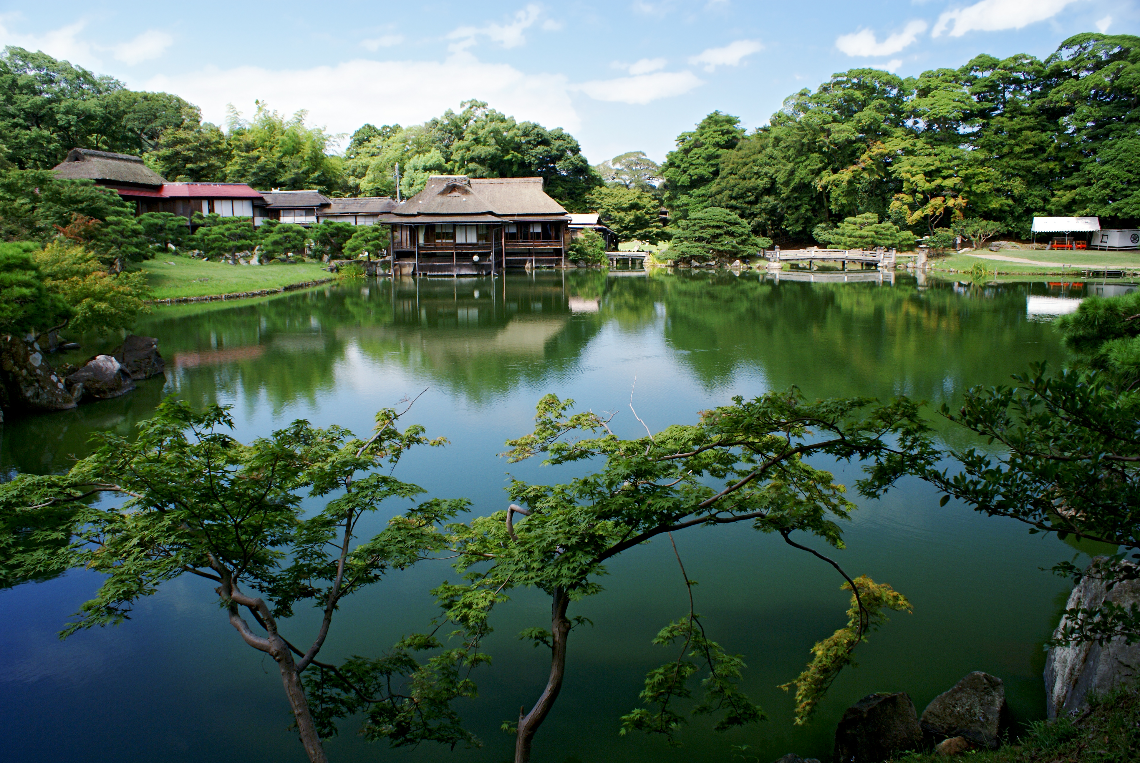 Genkyuen garden in Hikone, Shiga prefecture, Japan